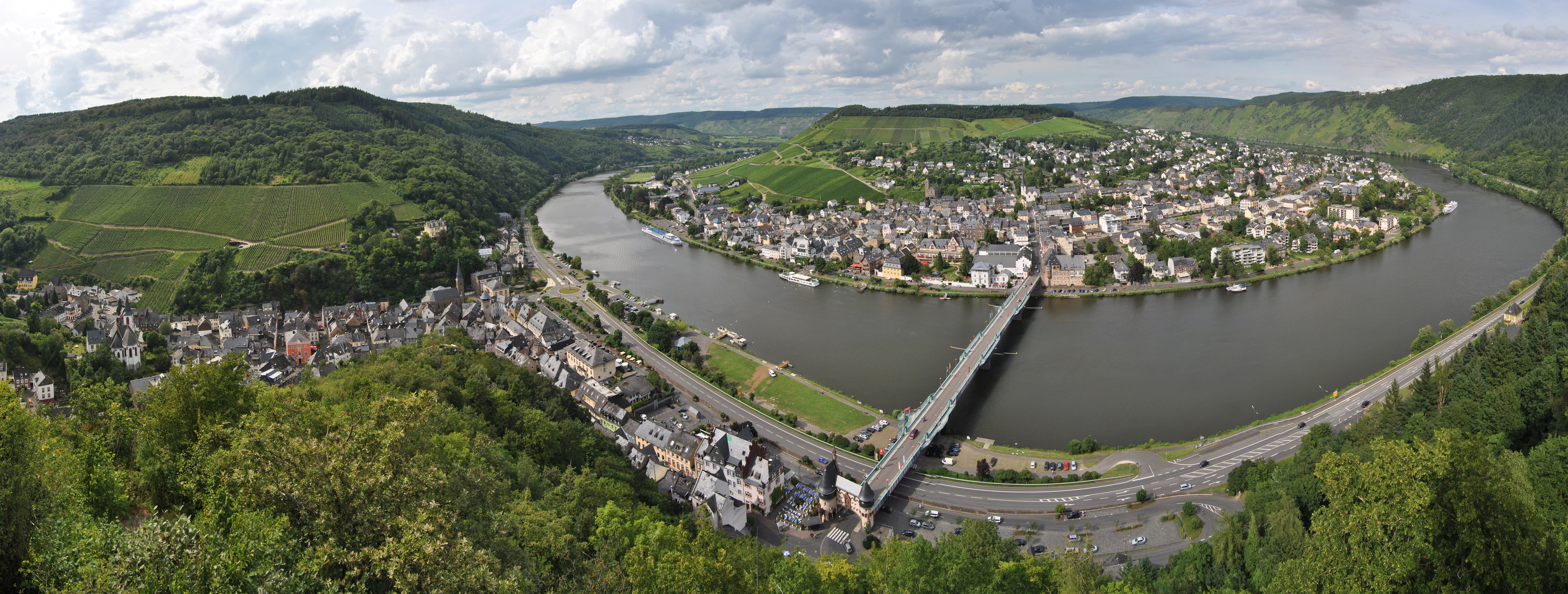 Traben-Trarbach (Rhineland-Palatinate, Germany) – panoramic view This is a photograph of an architectural monument.It is on the list of cultural monuments of Traben-Trarbach This photograph was taken with a Nikon D3000